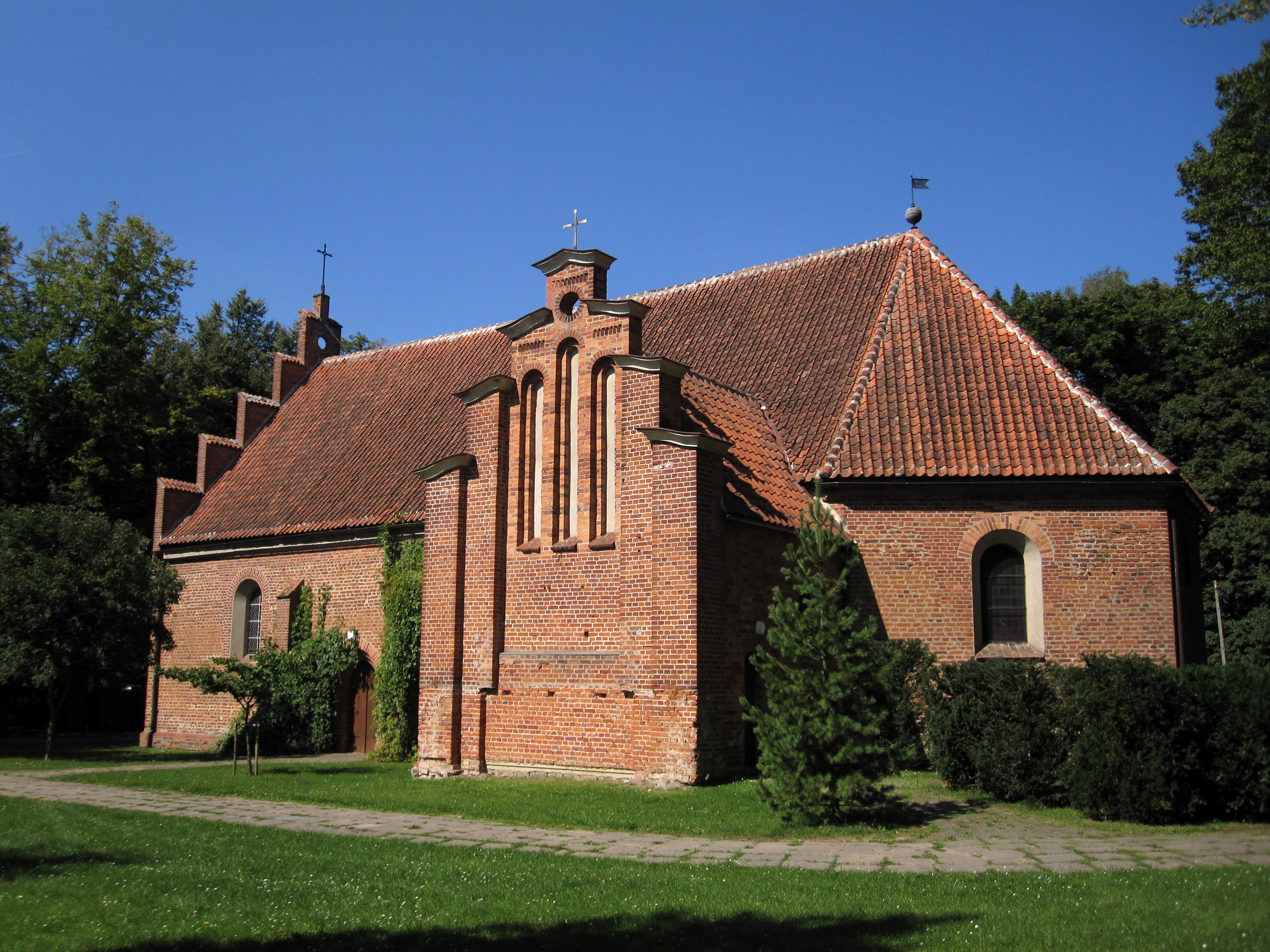 Church of the Visitation in Lubawa